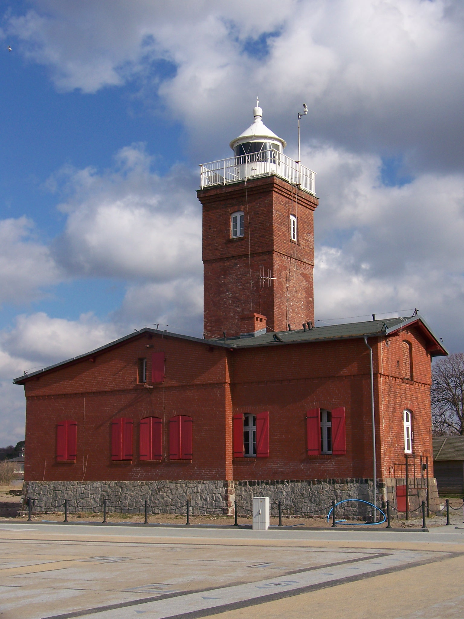 Lighthouse in Darłówko